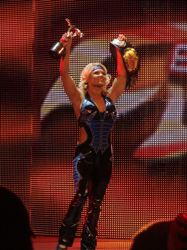 Beth Phoenix as the WWE Women's Champion and with her Slammy Award